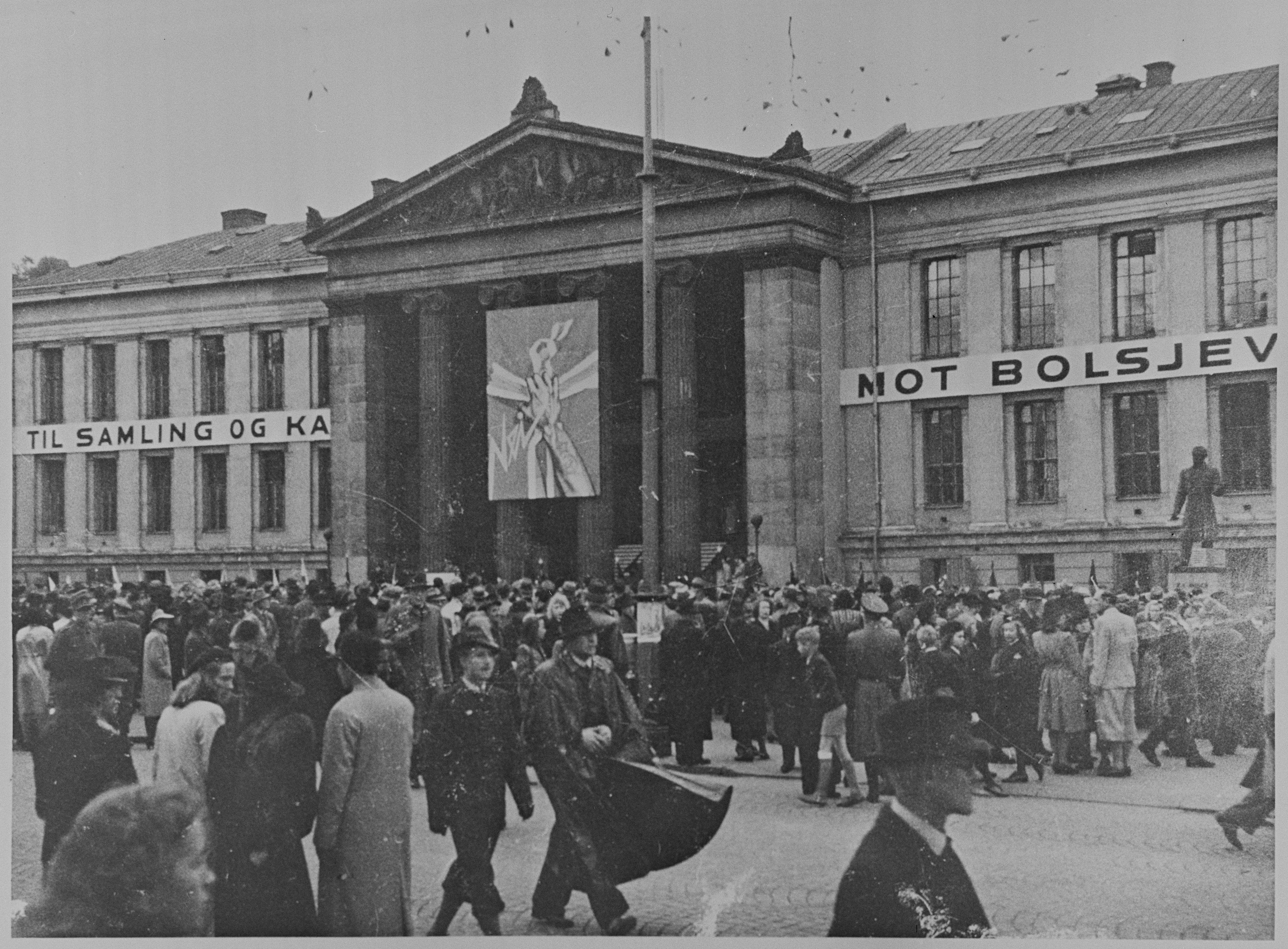 Fra Universitetsplassen i Oslo under Quislings tale 15.5.1944 (Original bildetekst)